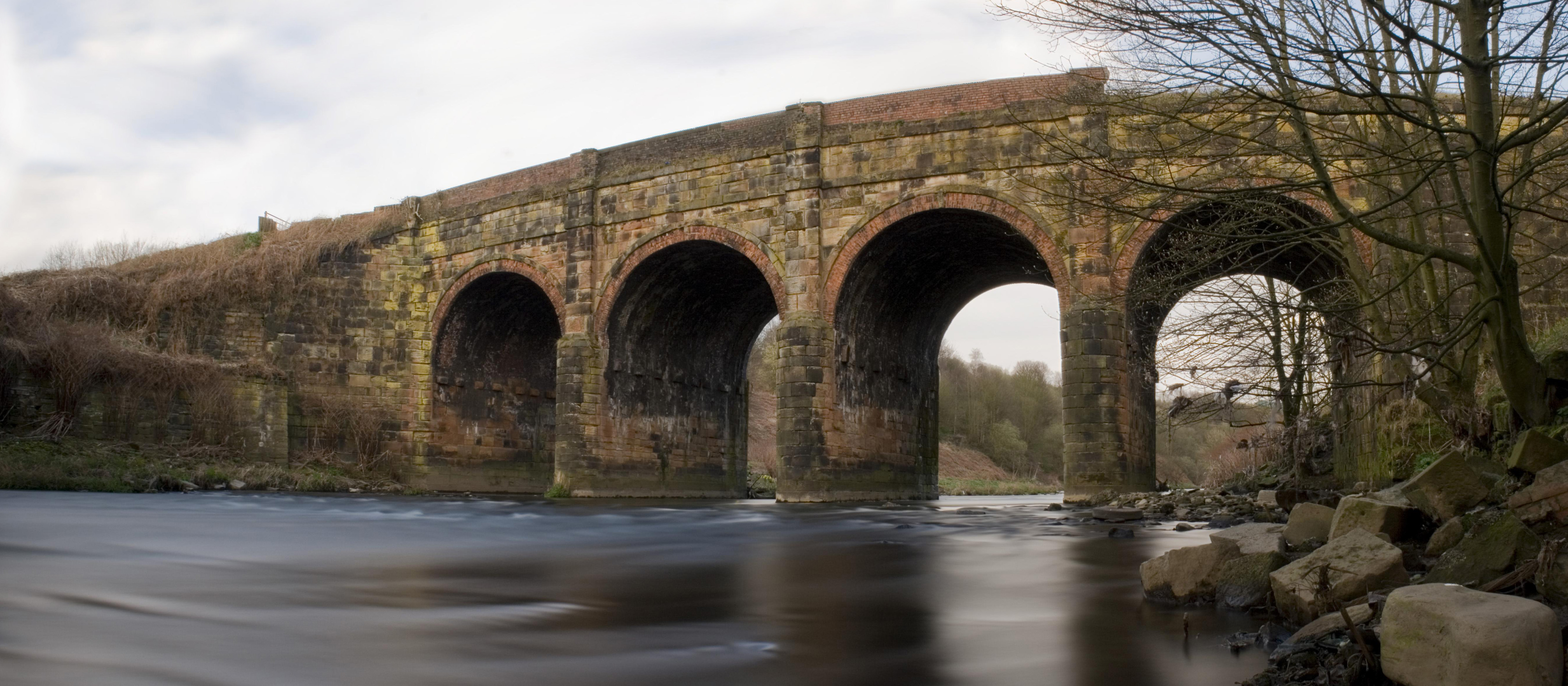 A long exposure panorama of Prestolee Aqueduct. Viewed from the south.